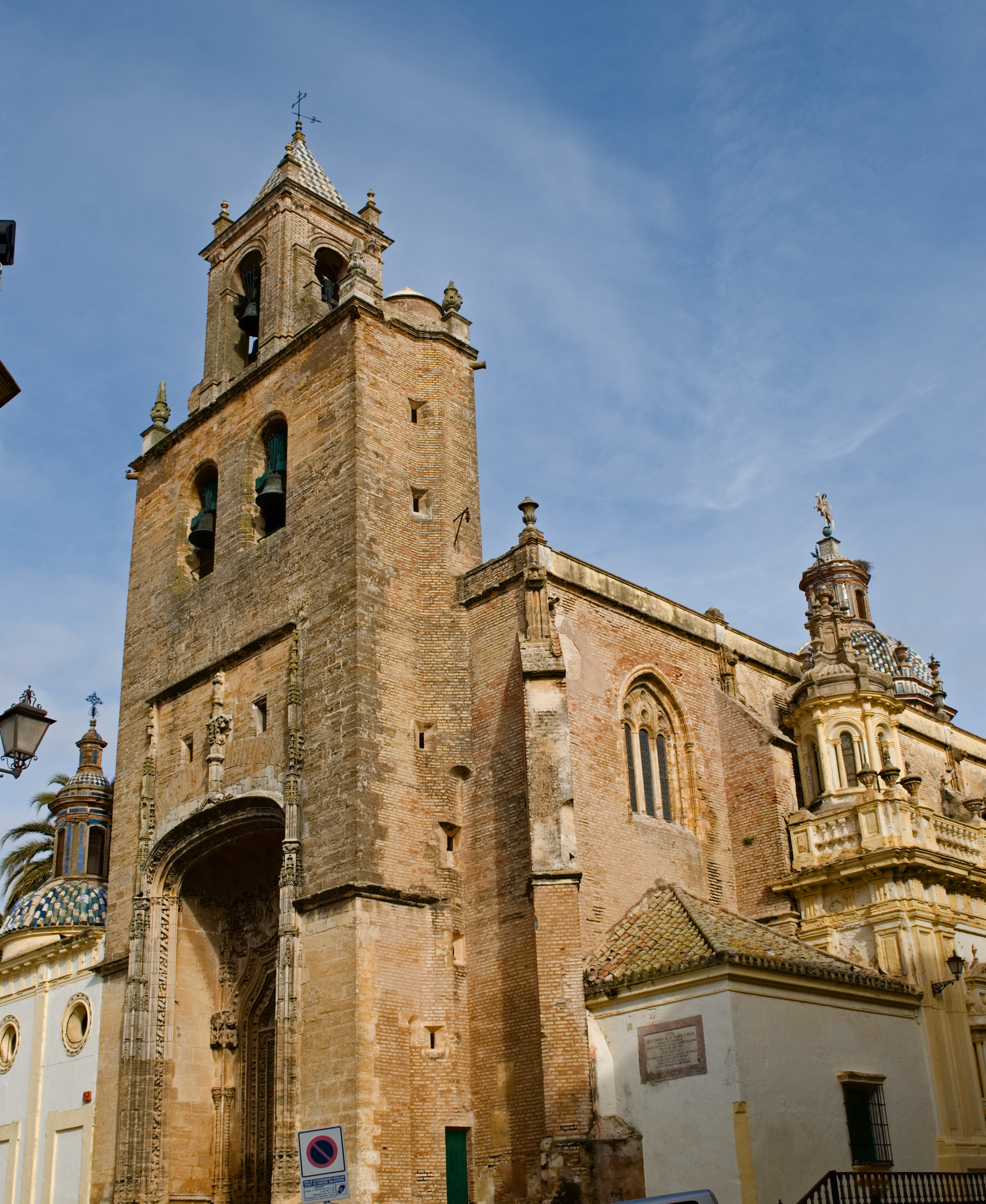 Church of Santiago, Utrera, (Seville)